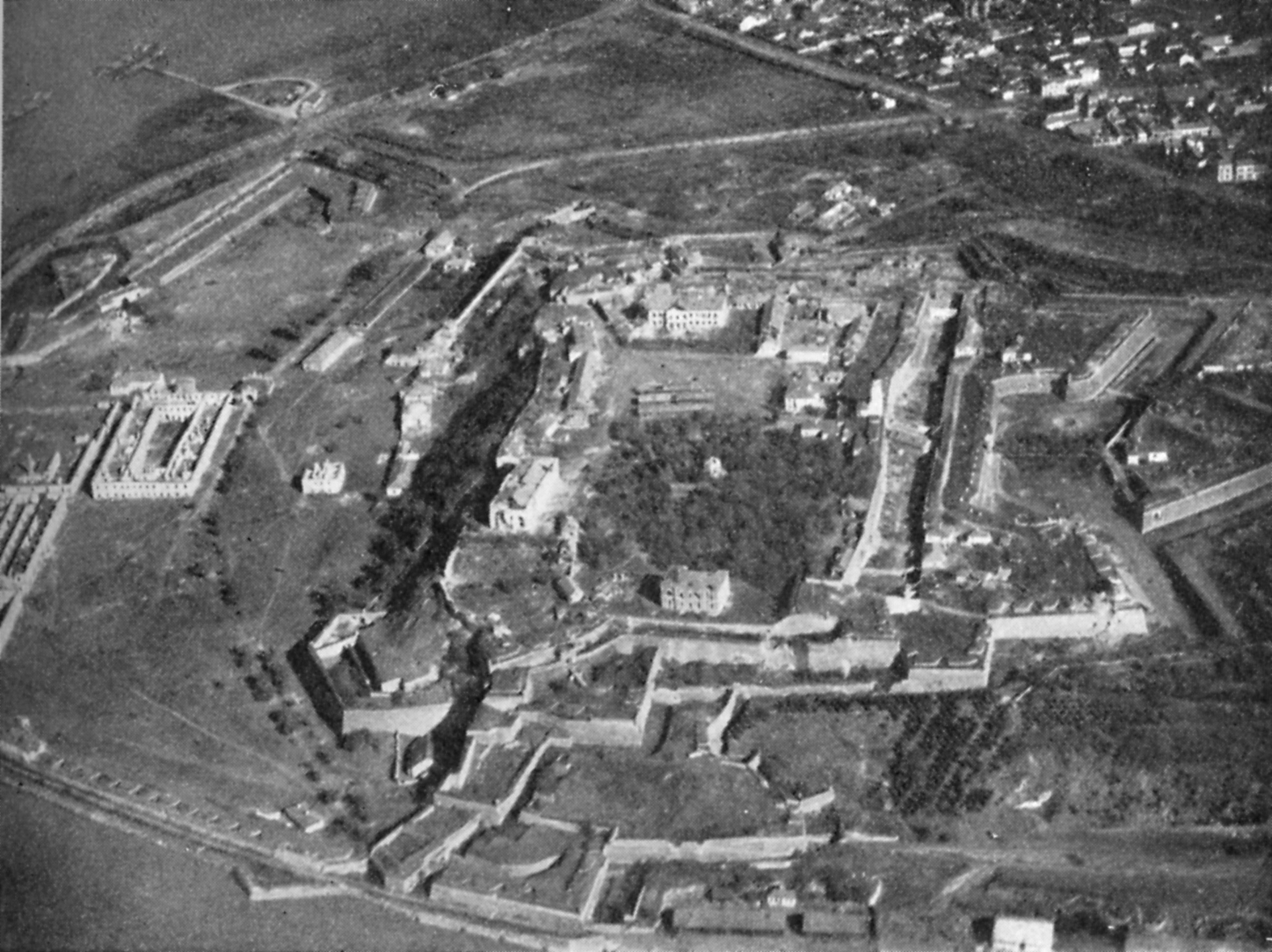 Belgrade Fortress, aerial photograph, 1914